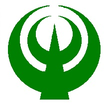 Tamaki Mie chapter